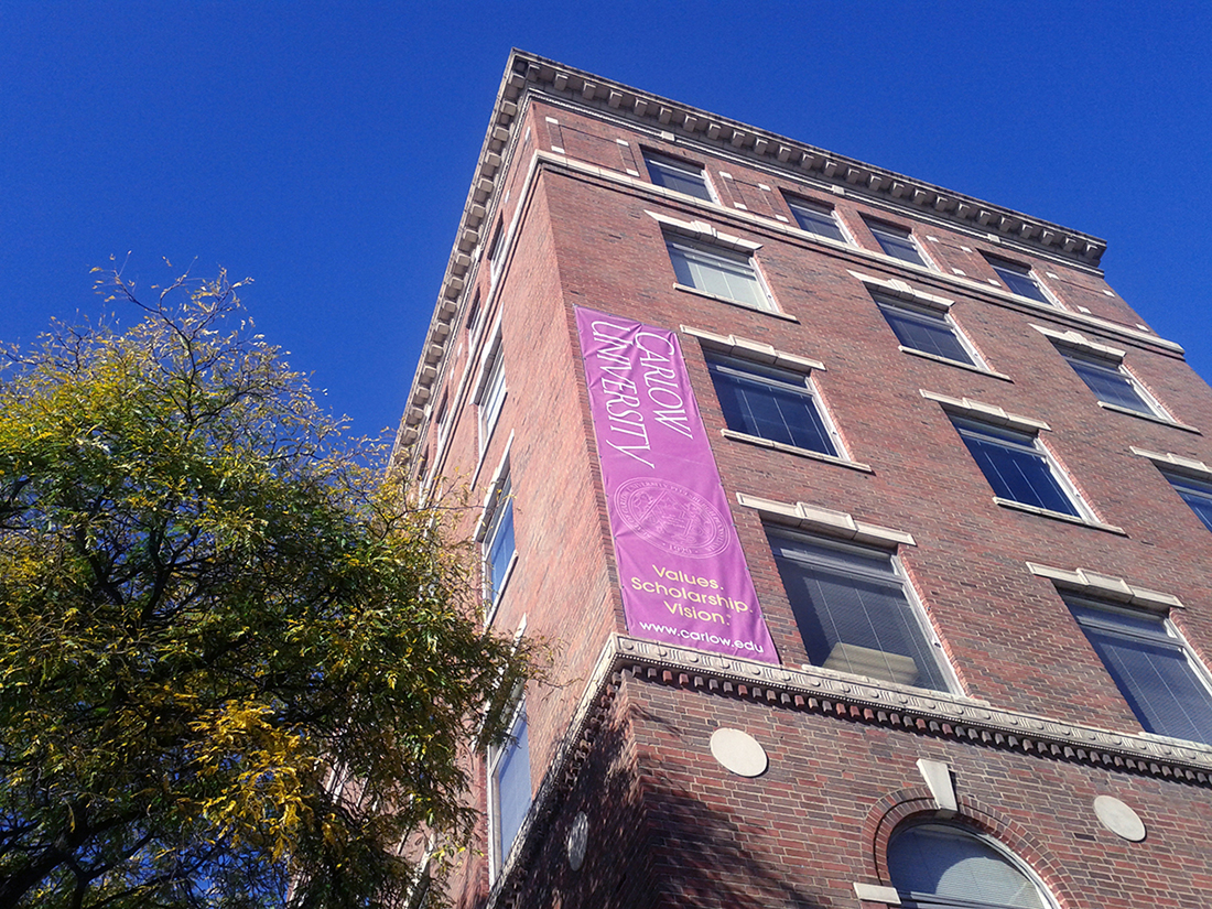 Carlow University Curran Hall facade and windows